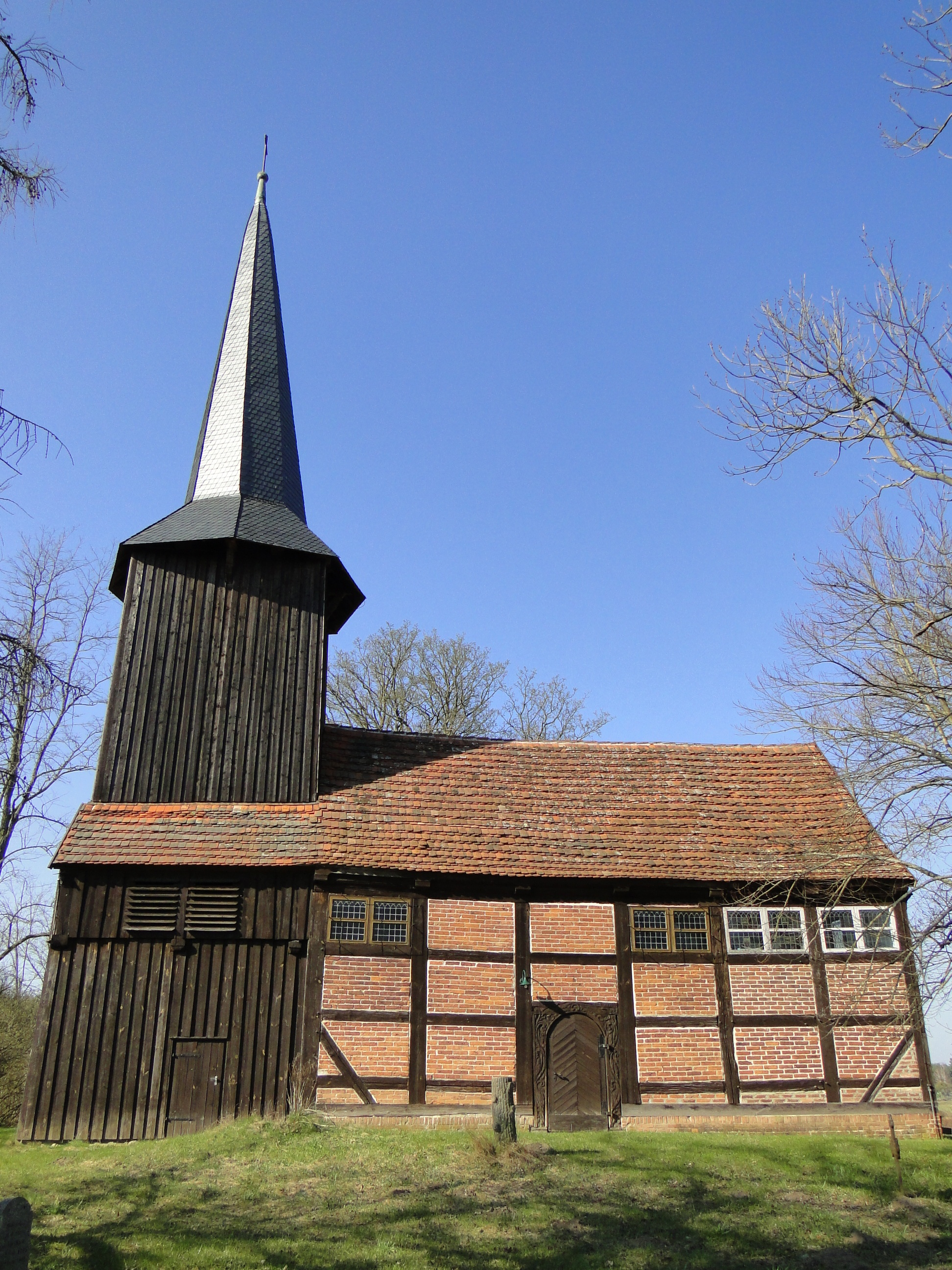 Church in Blankenförde, disctrict Mecklenburgische Seenplatte, Mecklenburg-Vorpommern, Germany